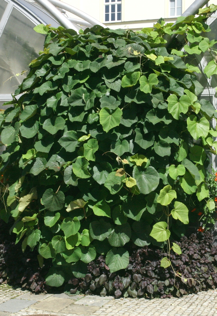 Vitis coignetiae in botanical garden, Brno, Czech republic